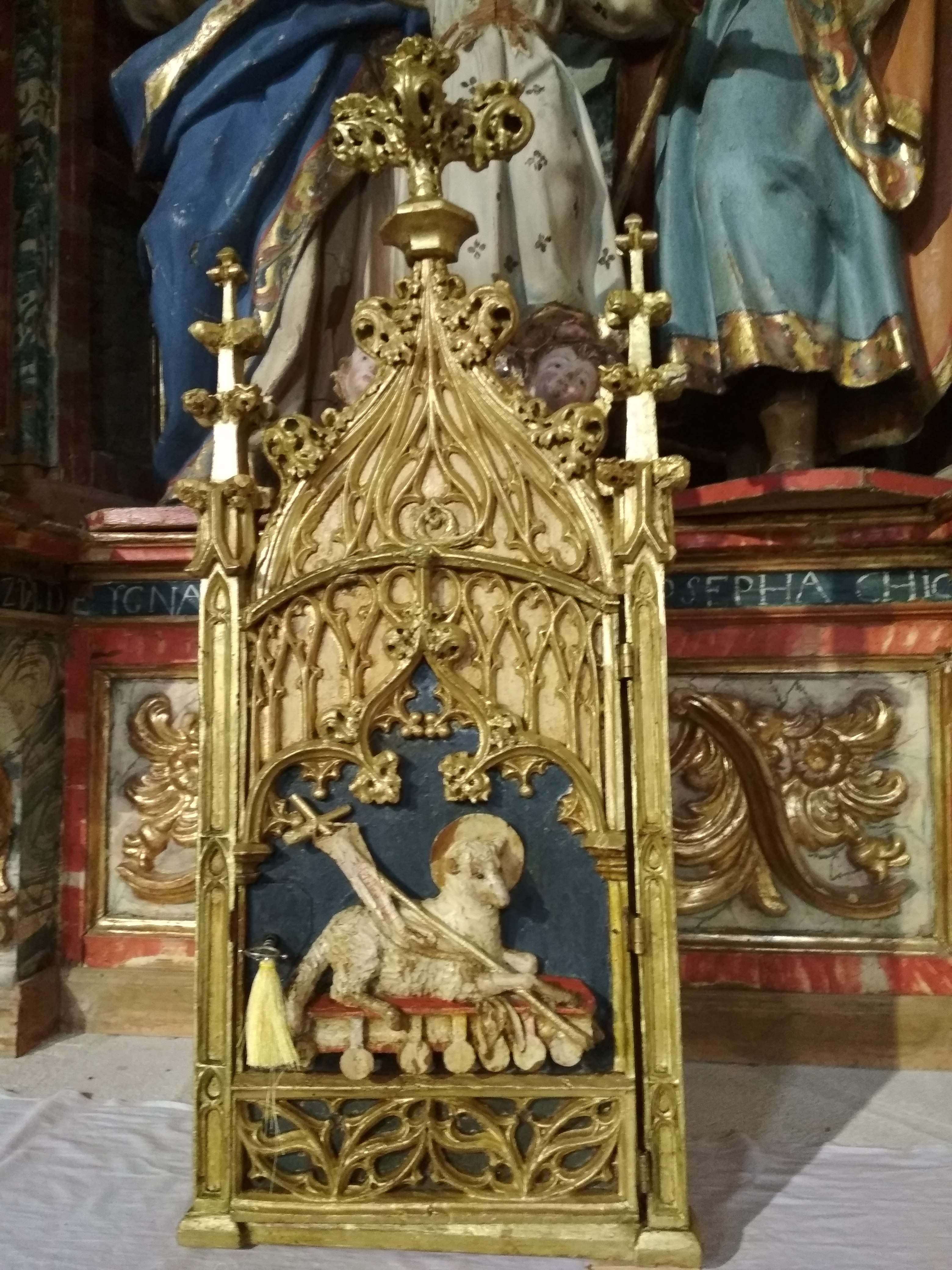 Gothic carved tabernacle, Santibáñez de Valcorba, Valladolid, Spain